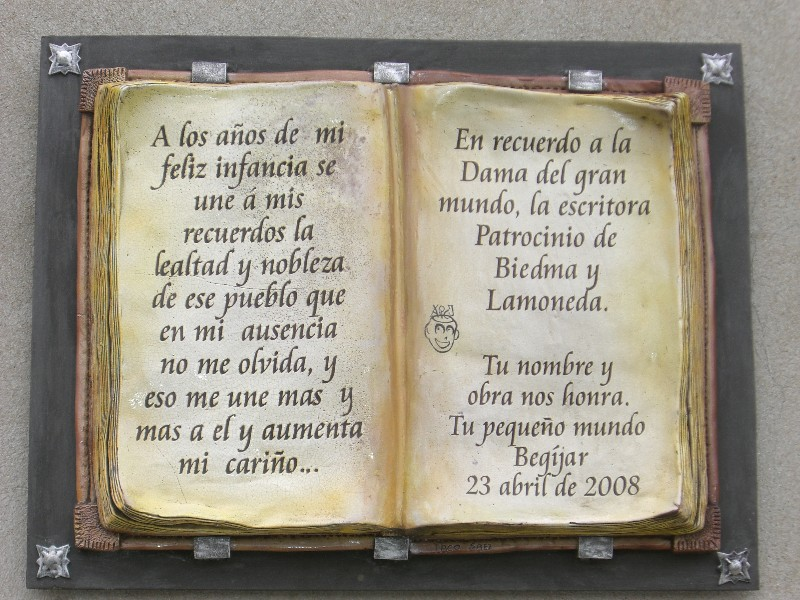 Placa P.de Biedma